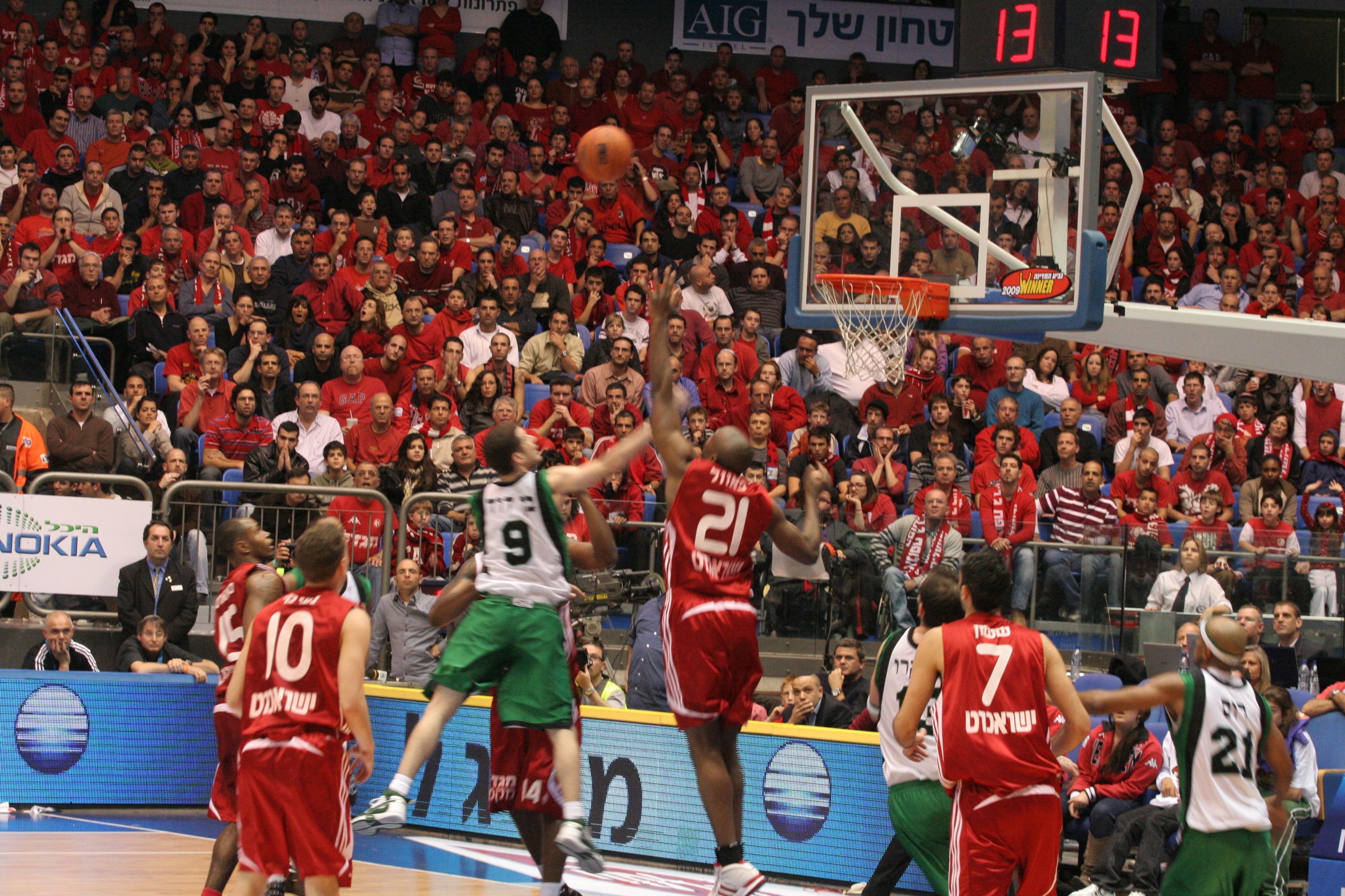 Hapoel Jerusalem Basketball at the Israel semi-final game